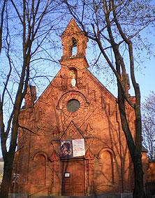 Facade of the Blessed Virgin Mary temple in Sumy (Ukraine).